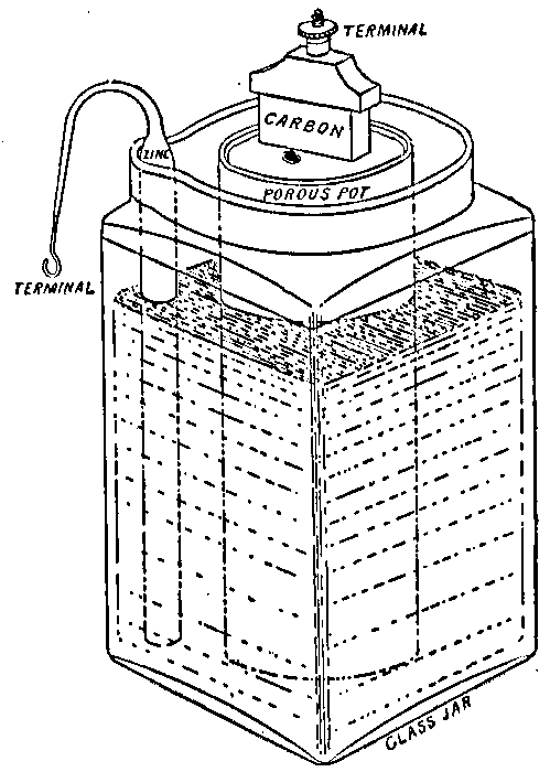 Engraving of a Leclanche cell from the Cyclopedia of Telephony and Telegraphy (1919).